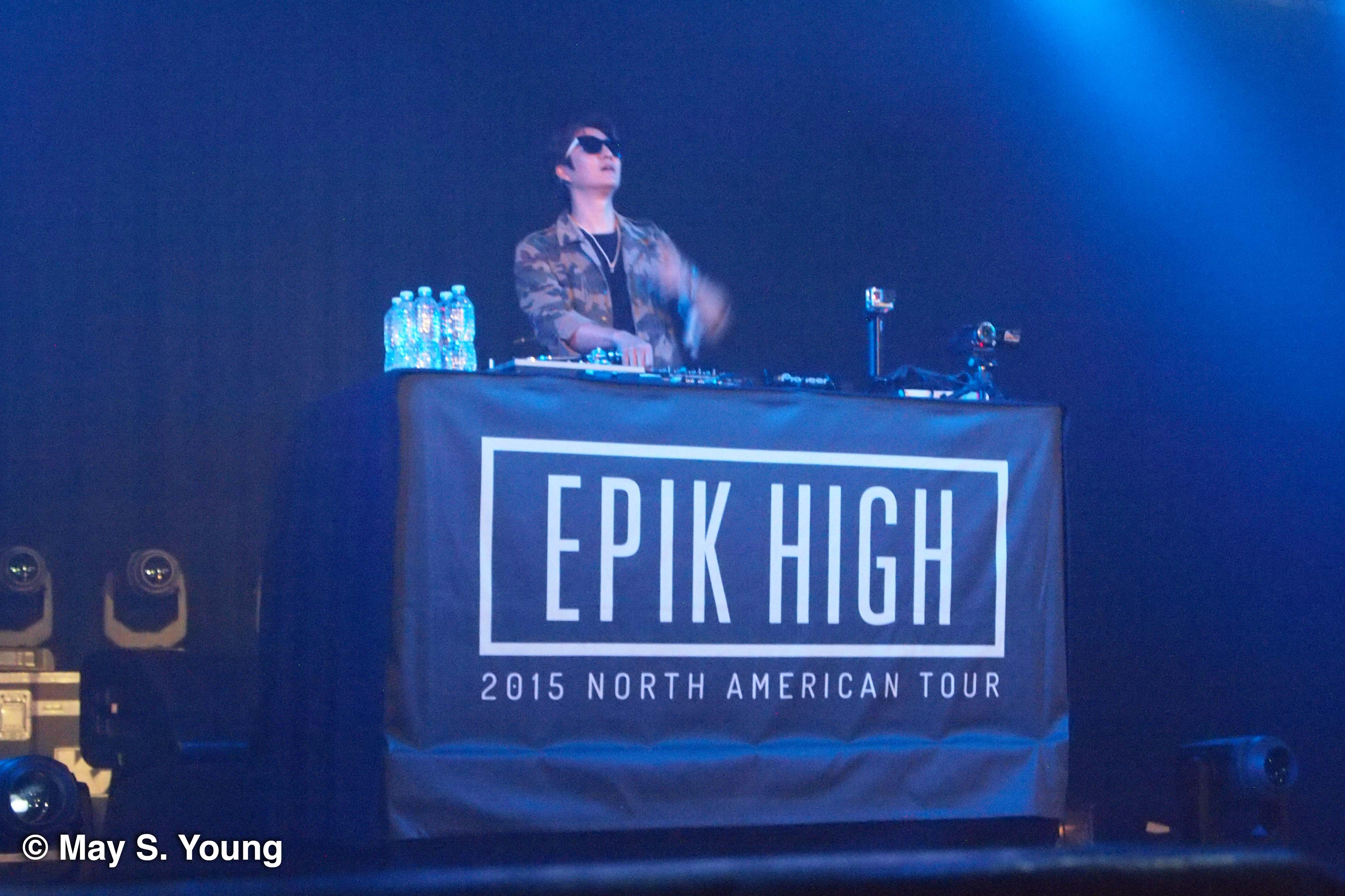 OLYMPUS DIGITAL CAMERA Epik High, Master Wu & DJ Soulscape at Best Buy Theater, New York City - 6/12/2015